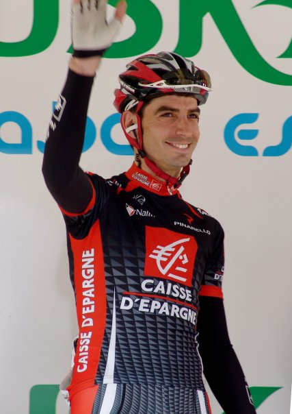 David Lopez Garcia